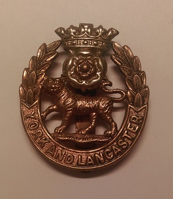 Photo of York and Lancaster Regiment Cap Badge from personal collection